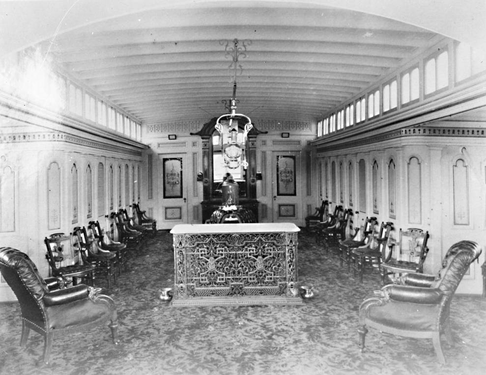 Interior of the steamboat Wide West, which operated on the Columbia river from 1877 to 18777.